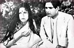 Kundan Lal Saigal and Jamuna in Devdas (1936).